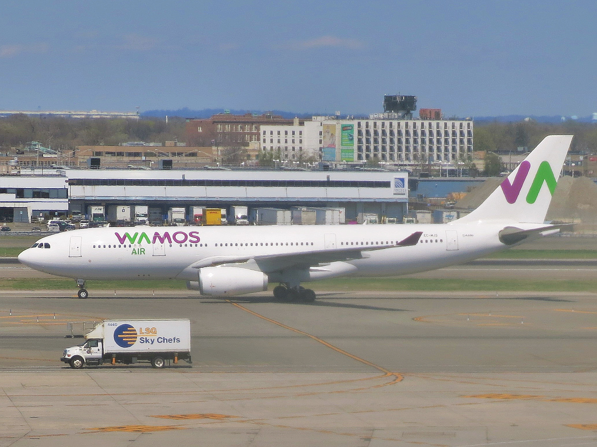 A Wamos Air Airbus A330-200, operating on behalf of Air Berlin, is taxiing on Taxiway B at JFK Airport past Terminal 5 on its way to Terminal 8.